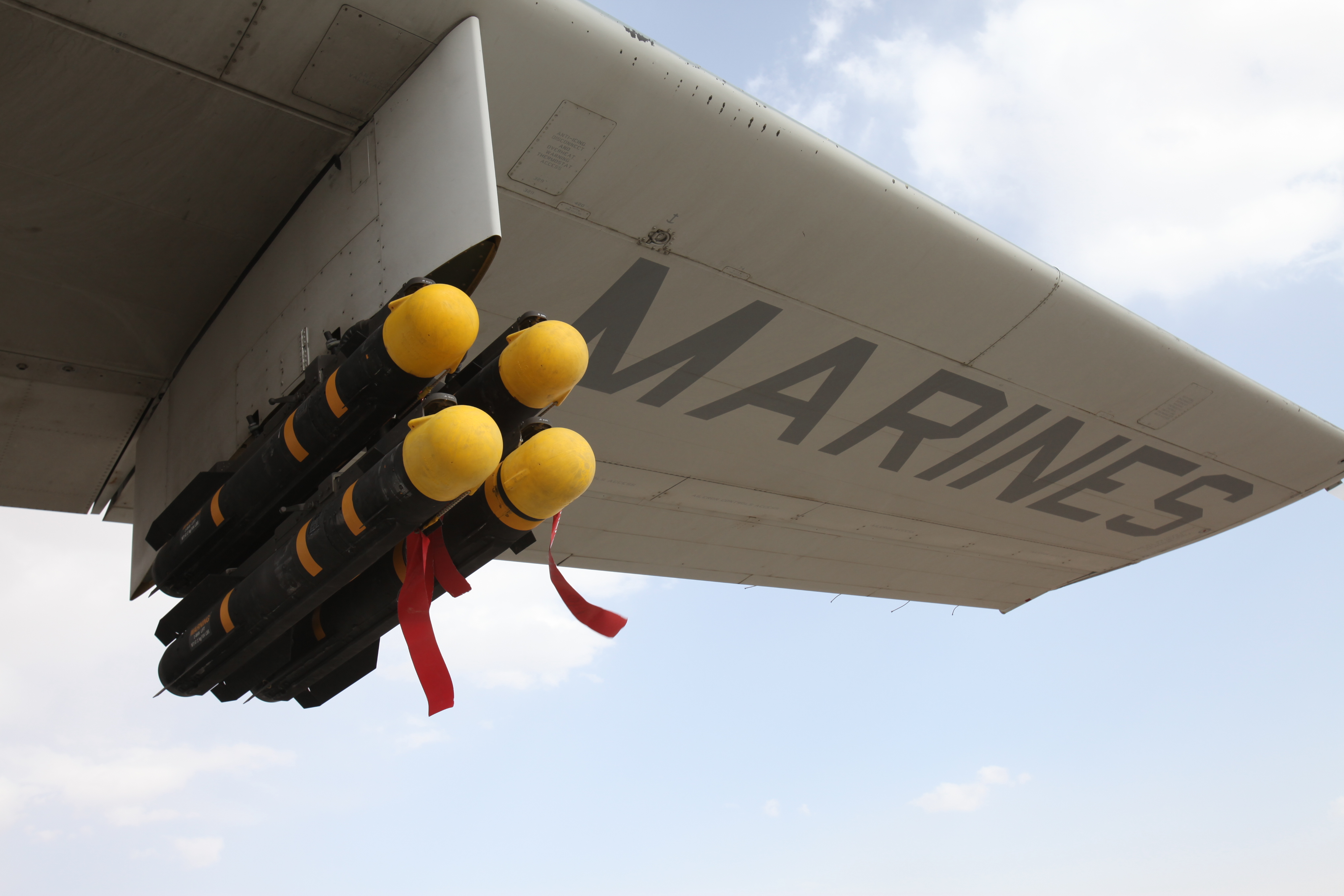 Original caption: The Harvest Hawk equipped KC-130J rests on the runway at Camp Dwyer, Afghanistan, March 24. The one-of-a-kind Harvest Hawk system includes a version of the target sight sensor used on the AH-1Z Cobra attack helicopter as well as a complement of four AGM-114 Hellfire and 10 Griffin missiles. This unique variant of the KC-130J supports 2nd Marine Aircraft Wing (Forward) in providing closer air support and surveillance for coalition troops on the ground in southwestern Afghanistan.